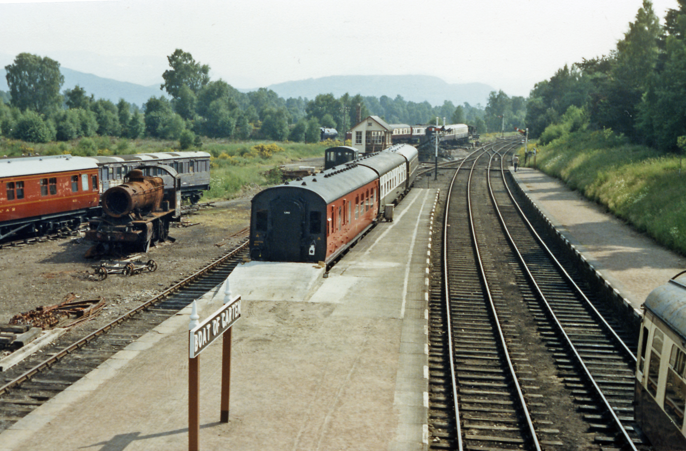 Boat of Garten station, Strathspey Railway, 1986. View southward, towards Aviemore. Originally the station was shared between the Highland Railway, whose main line ran through here between Perth and Inverness via Forres, and the GNSR whose branch ran from here to Craigellachie. These lines were closed from 18/10/65 - although remained open for goods from Aviemore until 4/11/68, but have been restored from Aviemore, currently as far as Broomhill, in stages since 1972 by the Strathspey (Heritage Railway). On the left is Ivatt LMS 2-6-0 46512 awaiting restoration - and being named 'E.V. Cooper, Engineer'